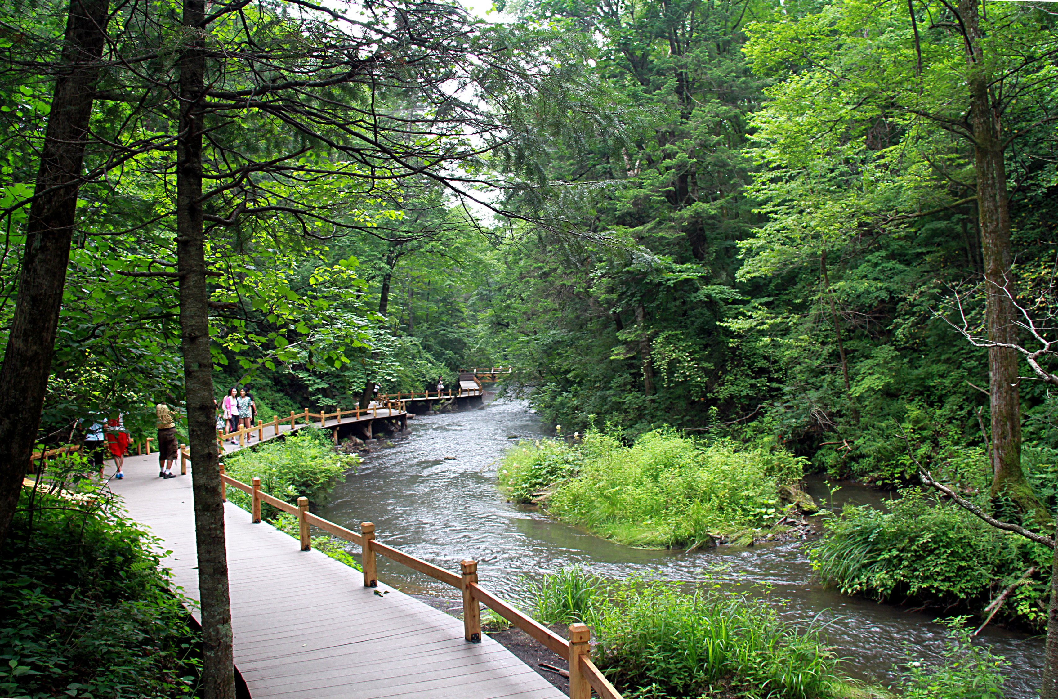 Photograph of a creek in the Longwanqun National Forest Park, Huinan County, Jilin, China.